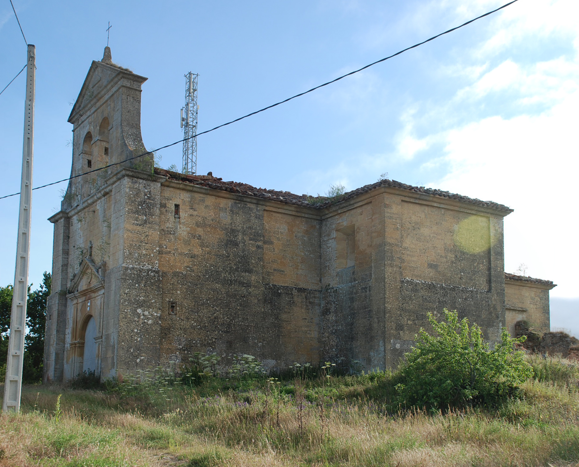 Church of Saint Peter in Villalta (province of Burgos, Castile and León).